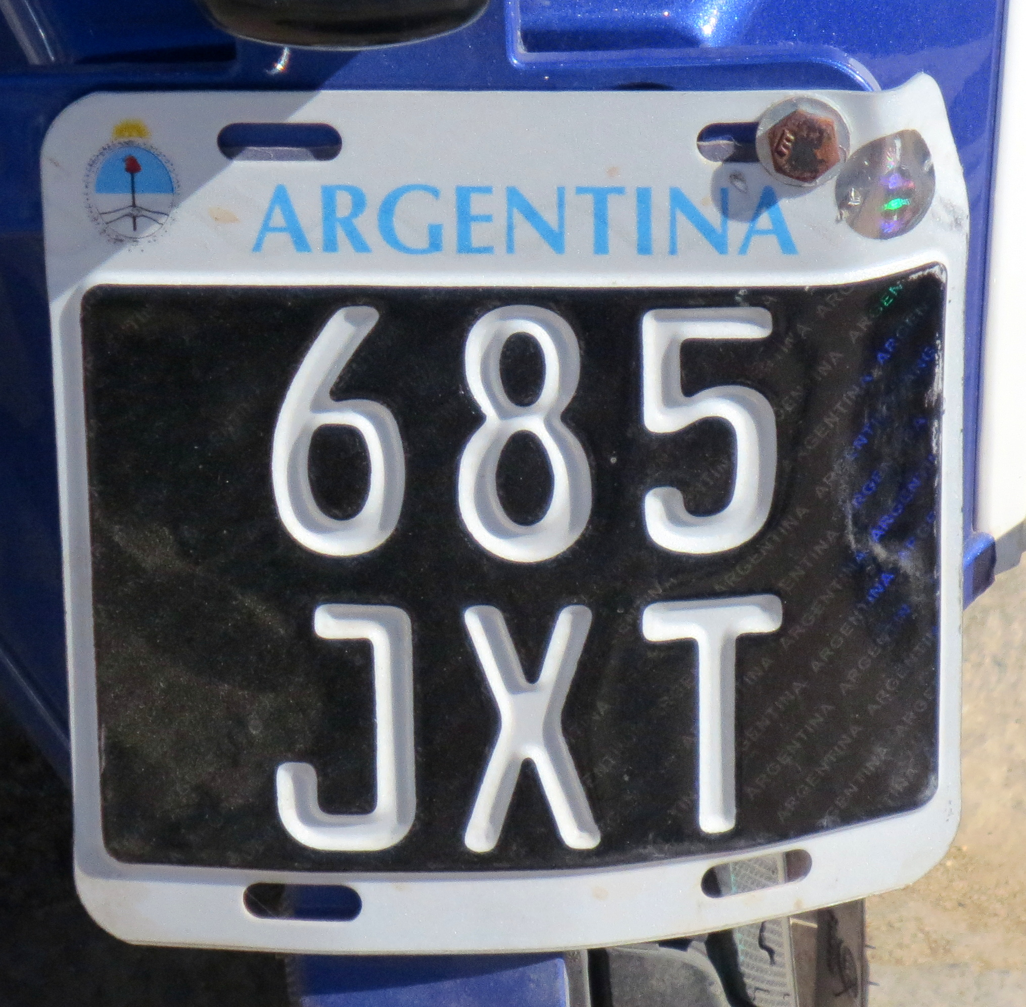 Argentinian registration plate: motobike